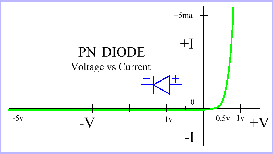 An approximation of a Silicon Diode plot of Voltage vs Current